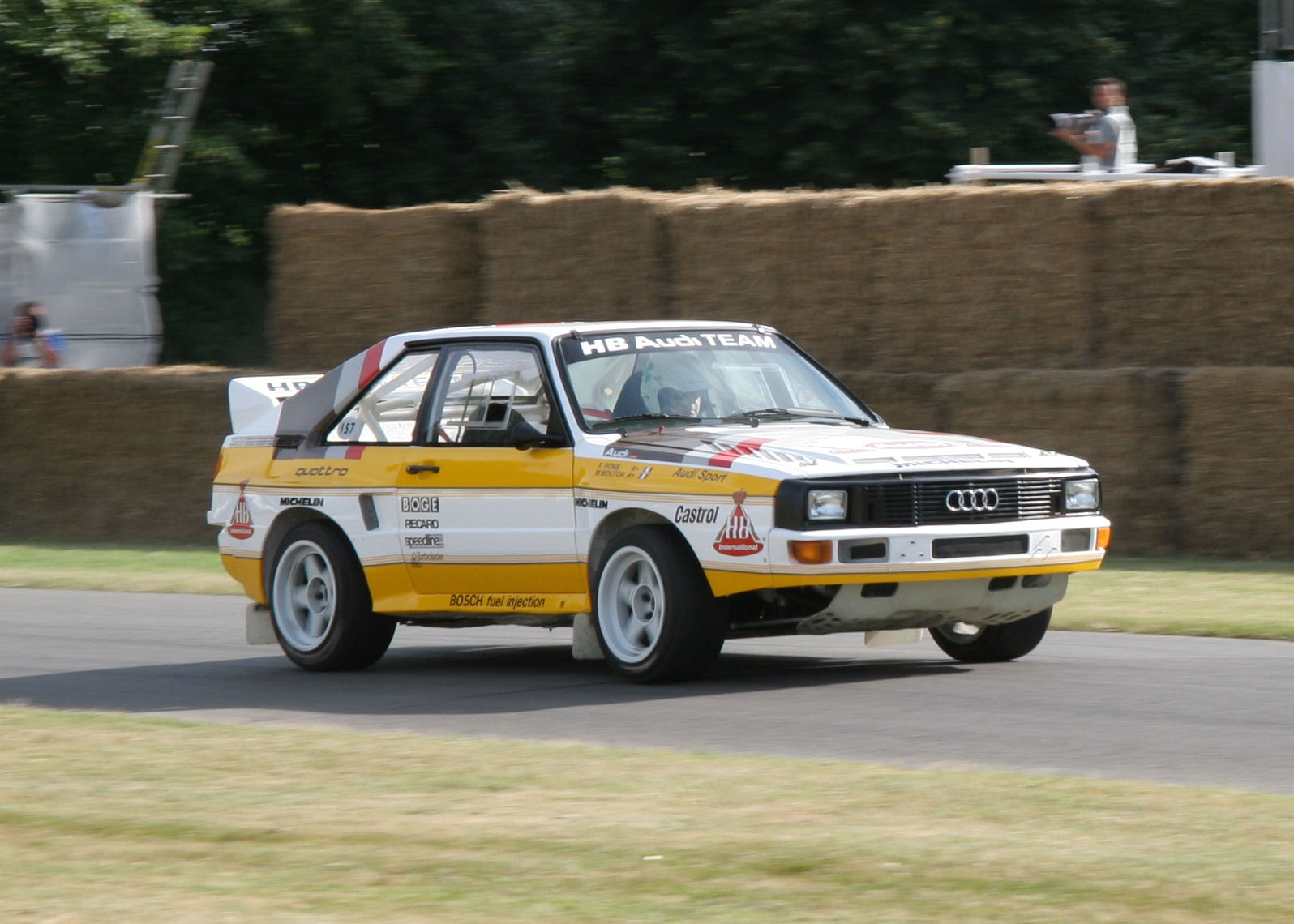 1985 Audi Sport Quattro, formerly driven by Michèle Mouton.